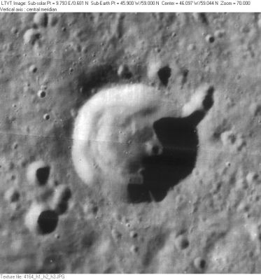 Robinson lunar crater - image LO-IV-164.